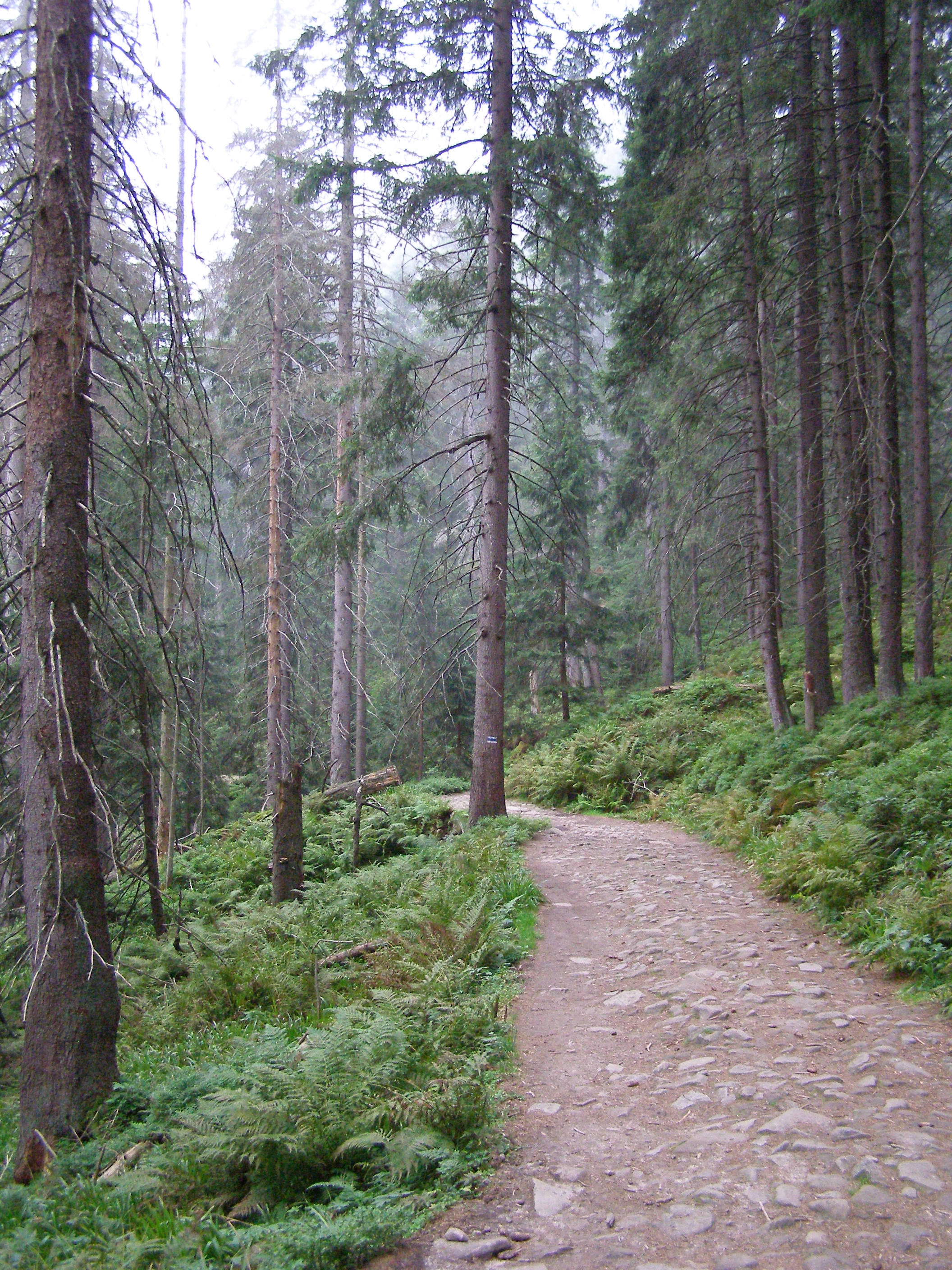 Babia Góra National Park - Górny Płaj path